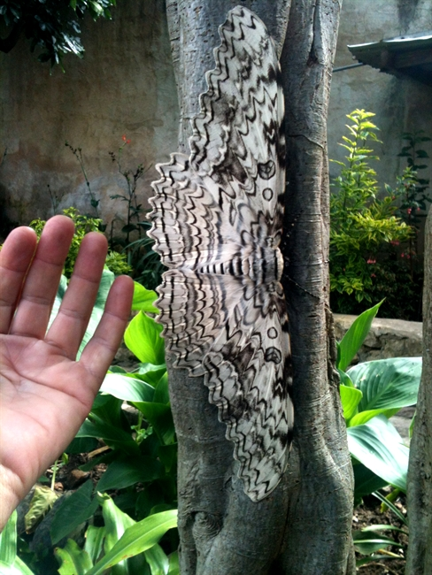 Giant White Witch moth, Thysania Agrippina. Found in San Cristobal de Las Casas, Chiapas, Mexico.